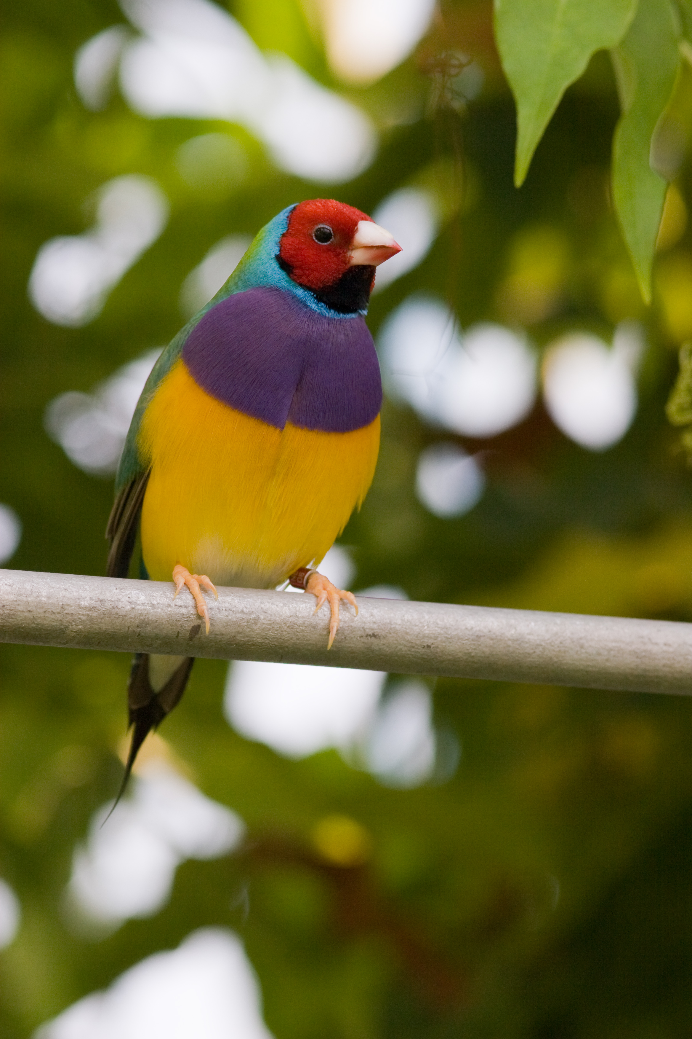 A male Gouldian Finch (red headed variety) at Artis Zoo, Amsterdam, Netherlands.